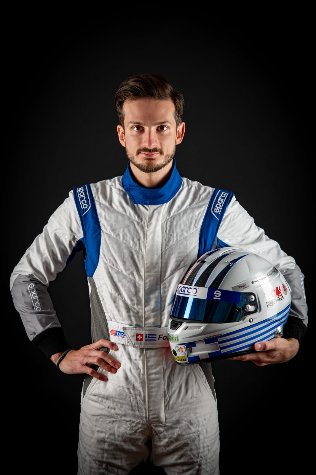 Alex Fontana